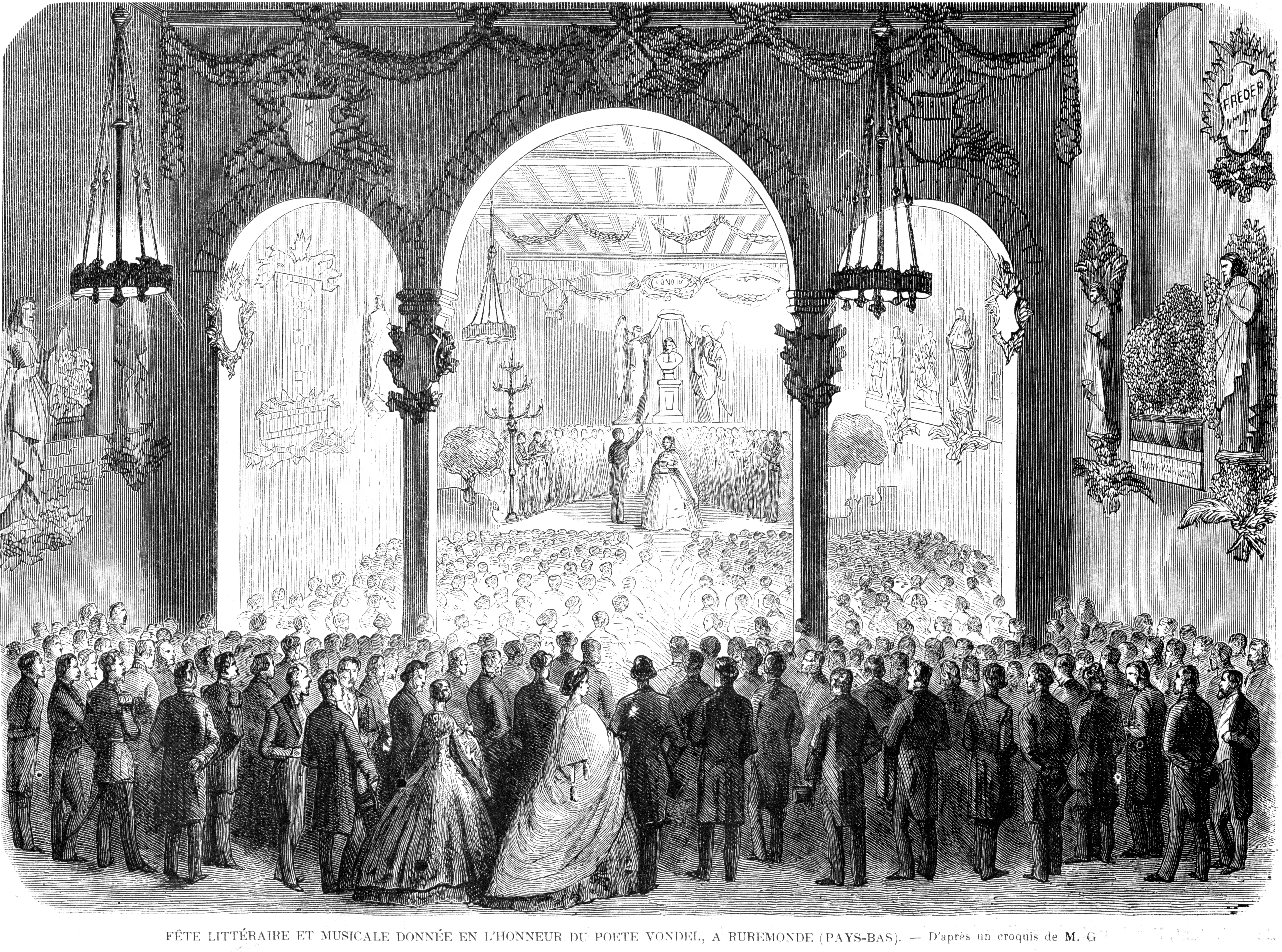 L'Illustration 1862 gravure Fête littéraire et musicale donnée en l'honneur du poète Vondel à Ruremonde (Pays-Bas)